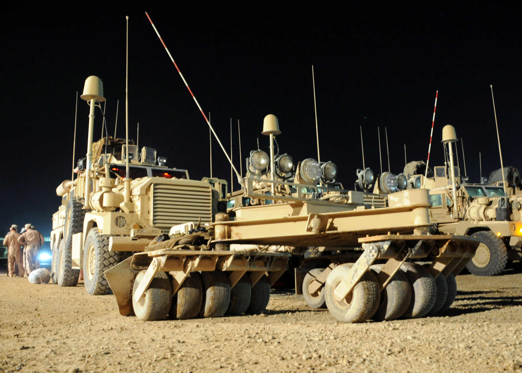 Joint EOD Rapid Response Vehicles (JERRVs) assigned to Naval Mobile Construction Battalion (NMCB) 7's convoy security element are secured following an escort mission from a forward operating base. The Cougar type JERRVs are employed by Coalition forces for escort and logistics missions, and to protect personnel from Improvised Explosive Devices. NMCB-7 is deployed to U.S. Forces Central Command to provide contingency construction support to Coalition forces in support of Operations Enduring and Iraqi Freedom.